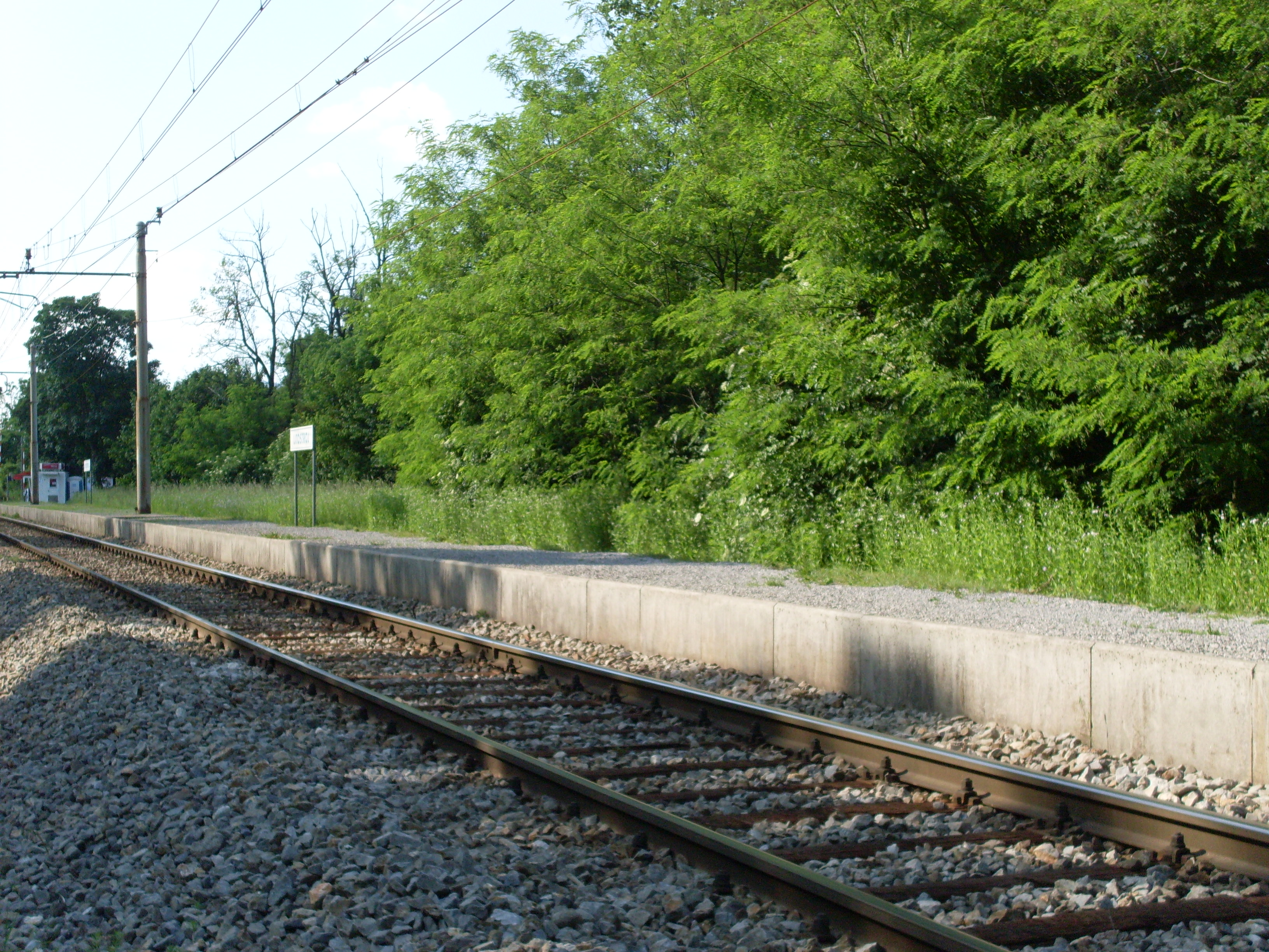 Rail halt Litostroj, northern part of Ljubljana, Slovenia